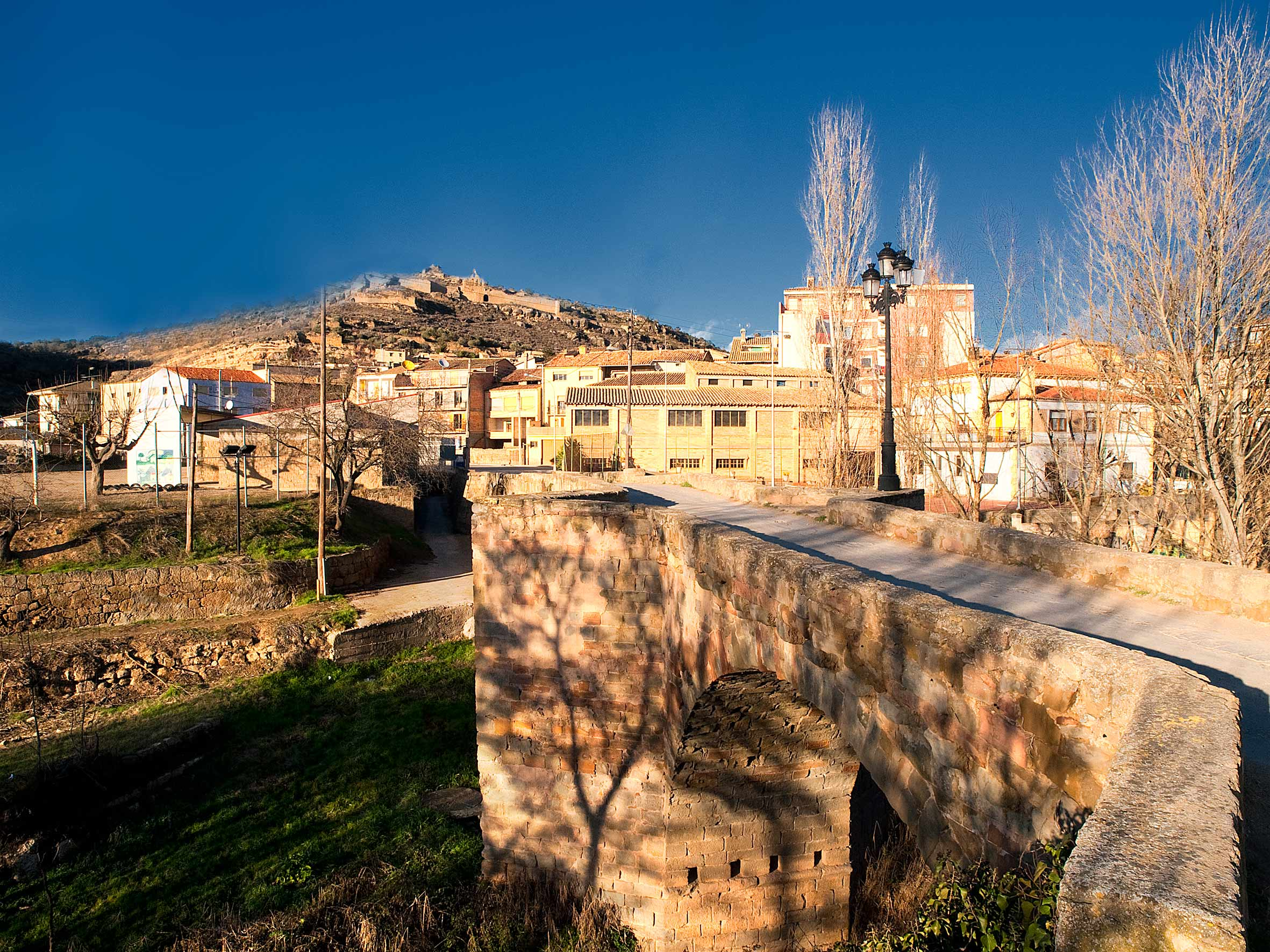 General landscape of Sanaüja (Catalonia, Spain)